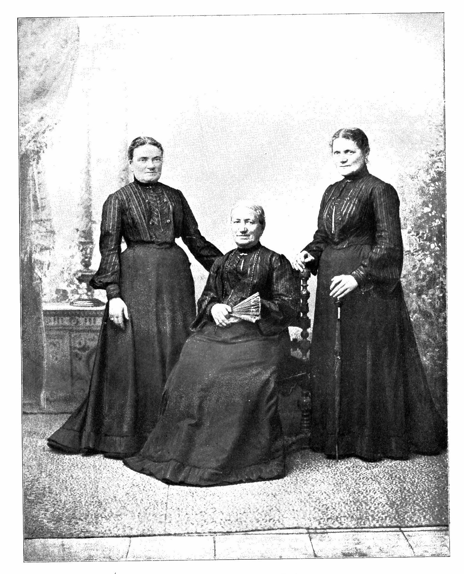 Margherita Sanson (1813 – 1894)